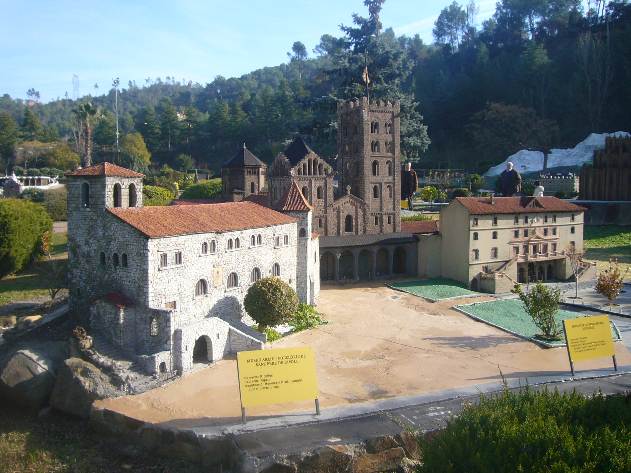 Scale model at the "Catalunya en Miniatura" miniature park : Museum of Ripoll and Monastery of Santa Maria de Ripoll